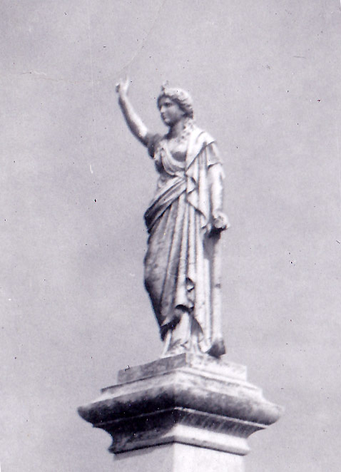 Wilson Family Graveyard, Friendship, Indiana